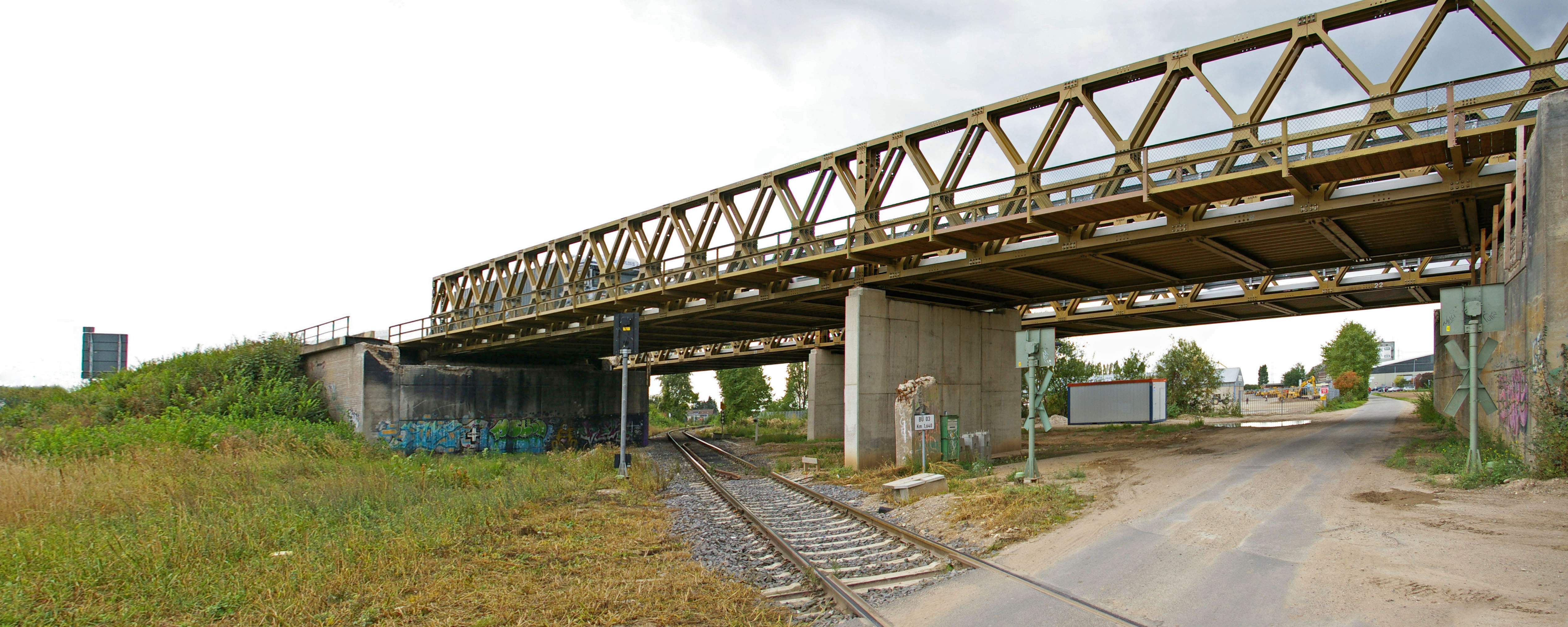 Auxiliary Bridge Bundesautobahn 57 near Nievenheim, "D-Bruecke"-type